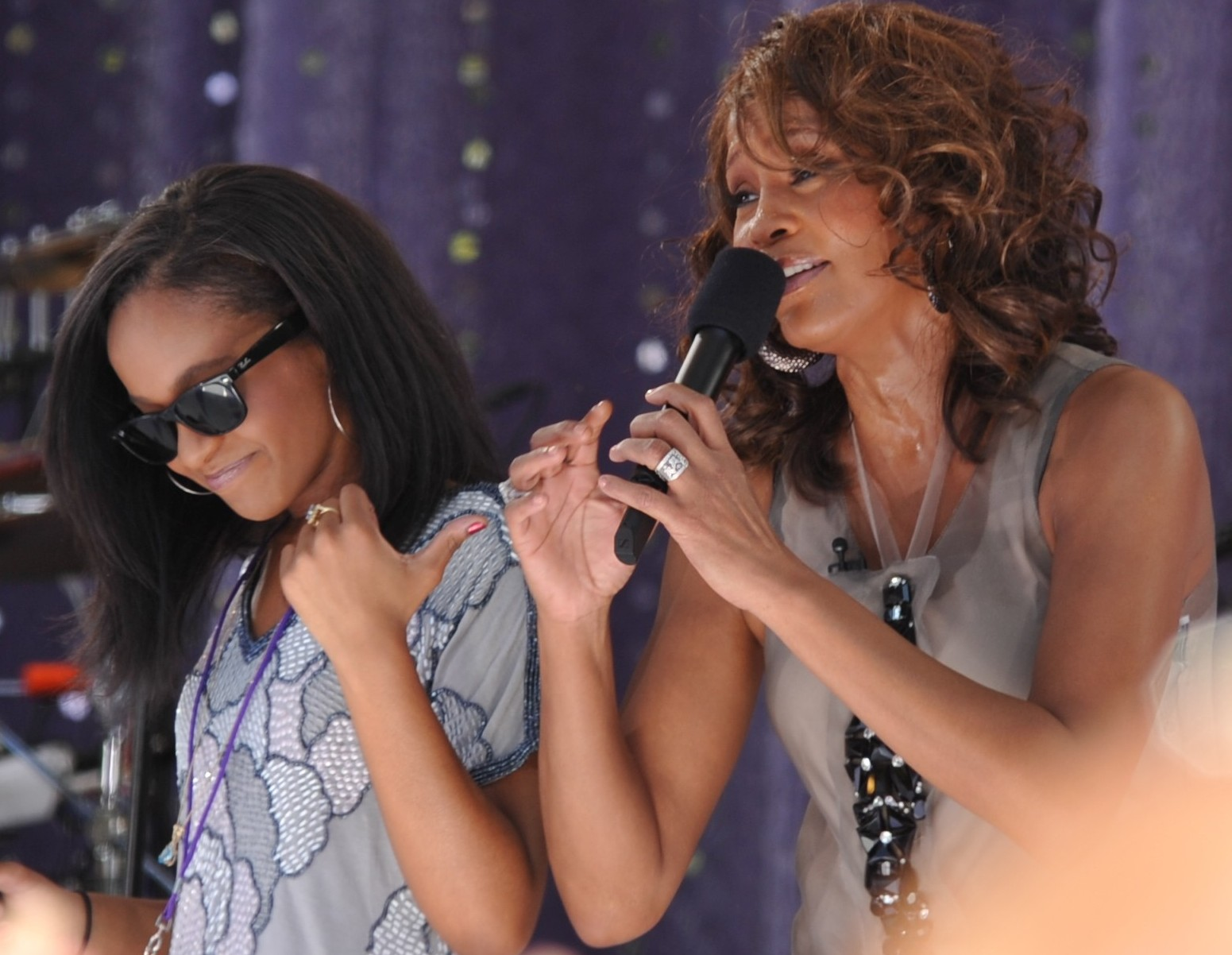 American singer Whitney Houston performing "My Love Is Your Love" with her daughter Bobbi Kristina Brown on Good Morning America (Central Park, New York City) on September 1, 2009.